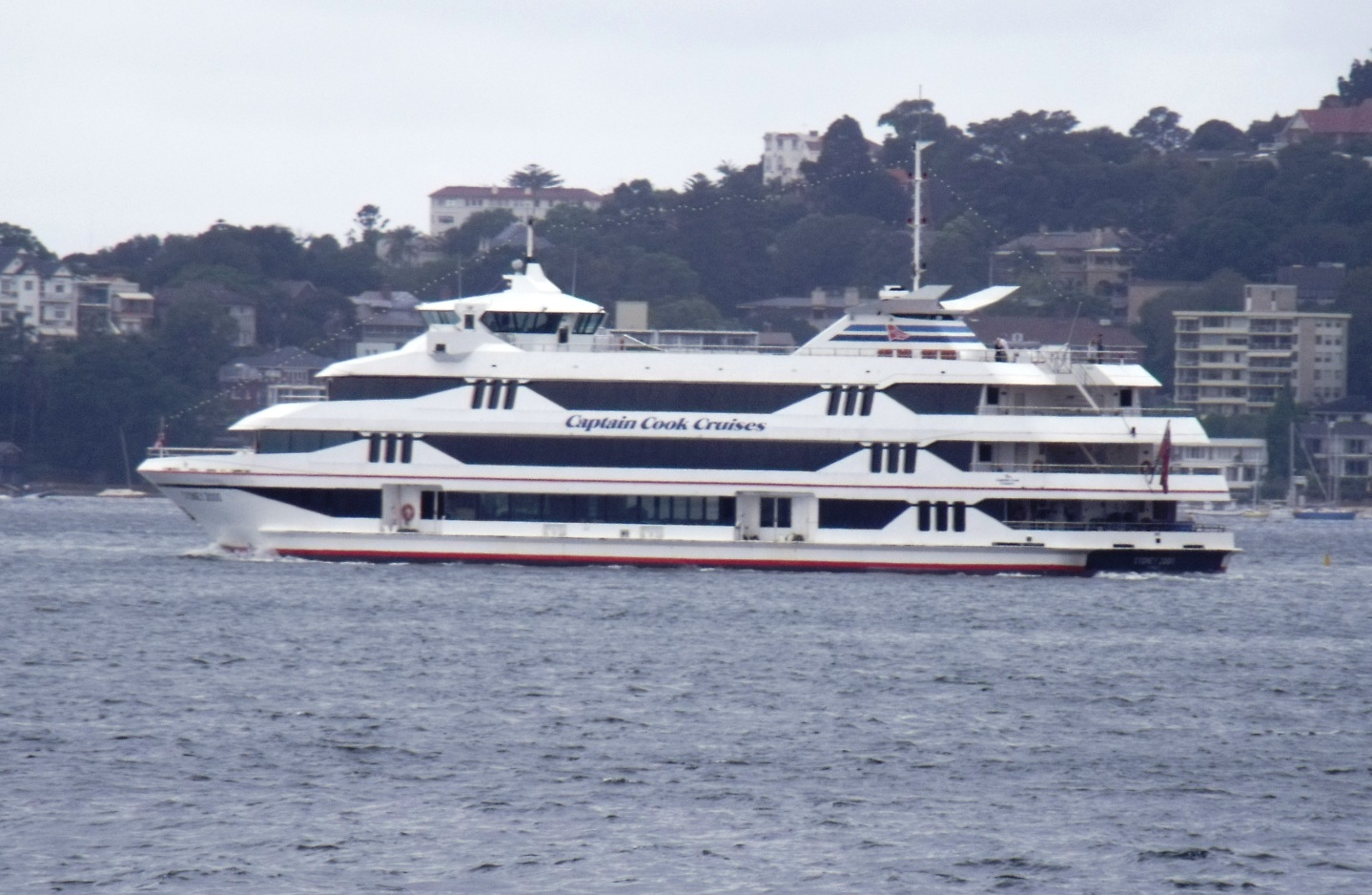 Captain Cook Cruises Sydney 2000 on the morning harbour cruise in Sydney